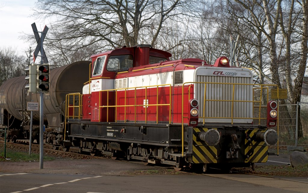 Railroad in Uetersen (Germany), photo 2008